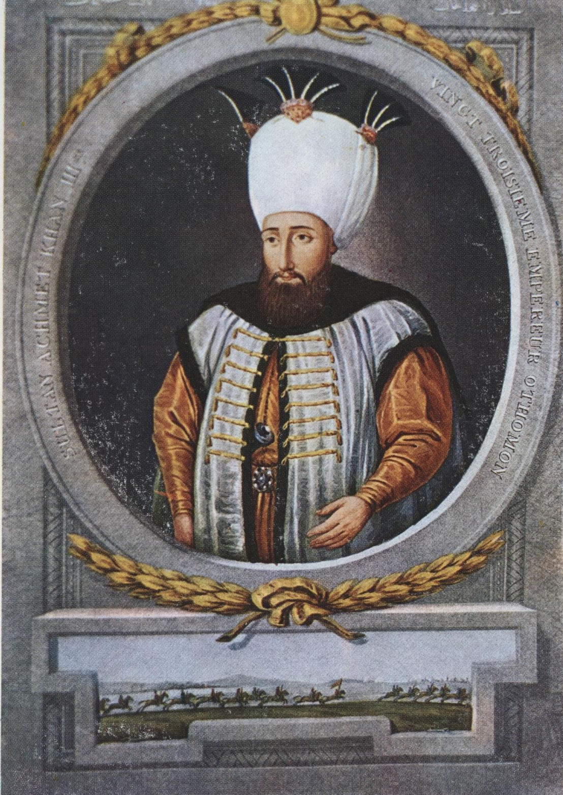 Ahmet III